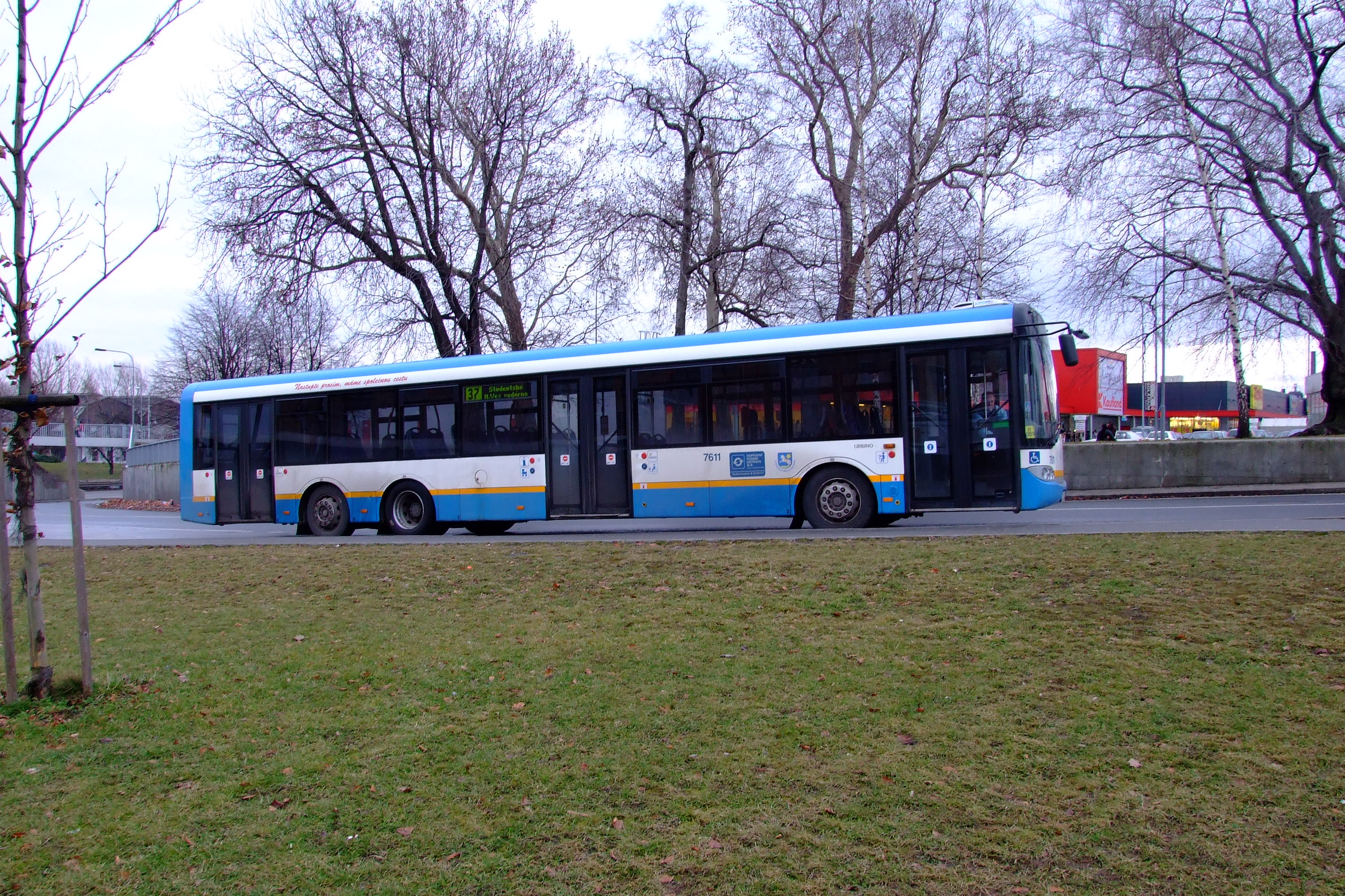 Main Bus Station in Ostrava. Solaris Urbino 15 bus (#7611). Built 2005. DP Ostrava operator.